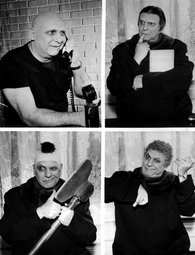 Publicity photo of Jackie Coogan as Uncle Fester from the television program The Addams Family.